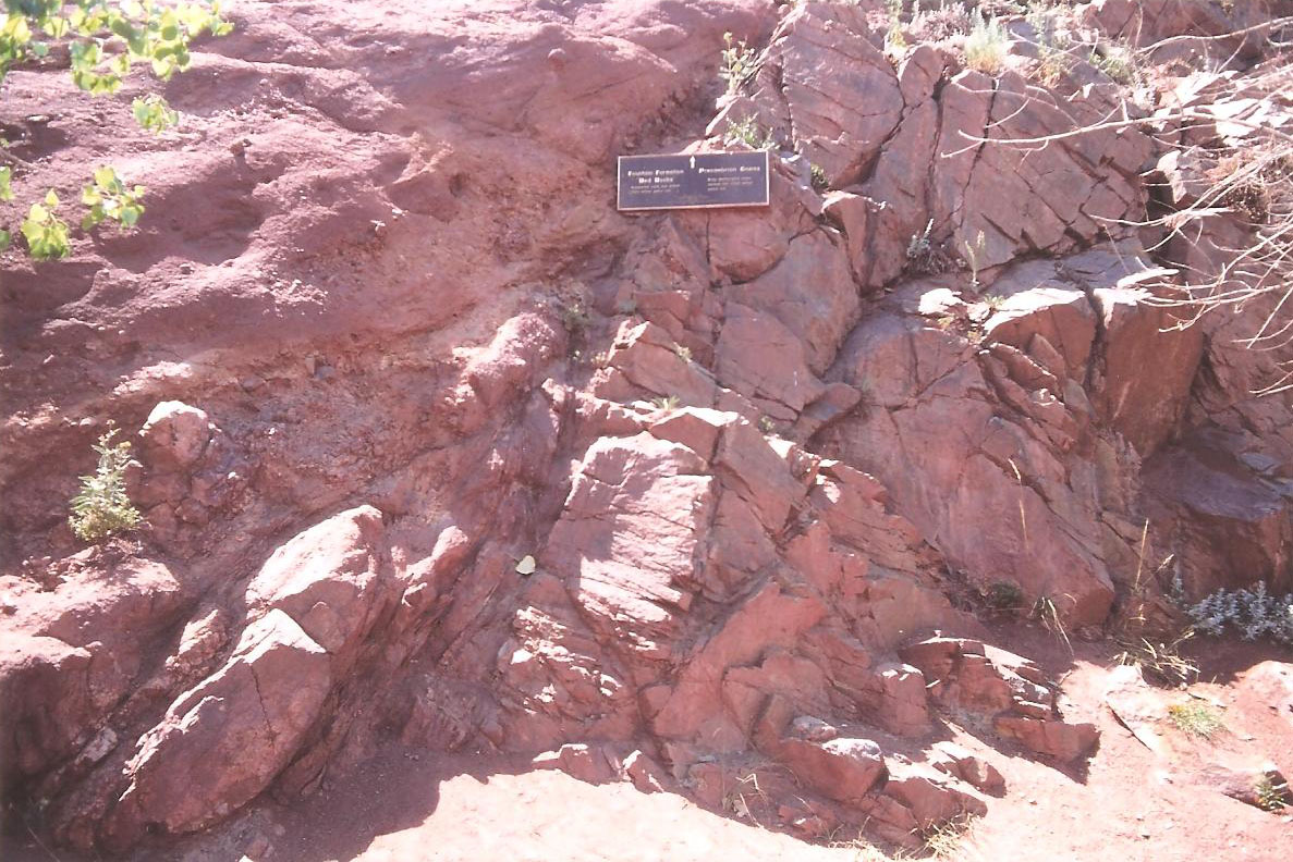 Outcrop of the Fountain Formation (left) unconformably overlying Precambrian rocks at the parking lot of Red Rocks Park, Colorado. Taken 2003.